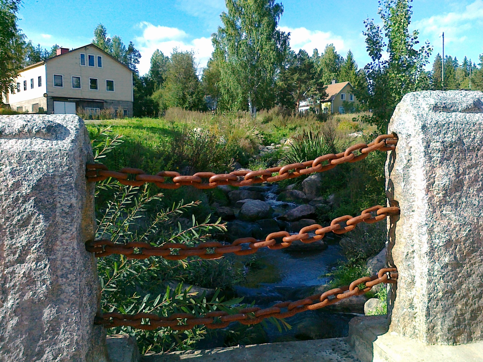 Route for fish to pass the Naarkoski hydropower plant